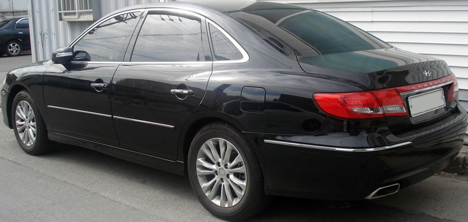 Hyundai The Luxury Grandeur